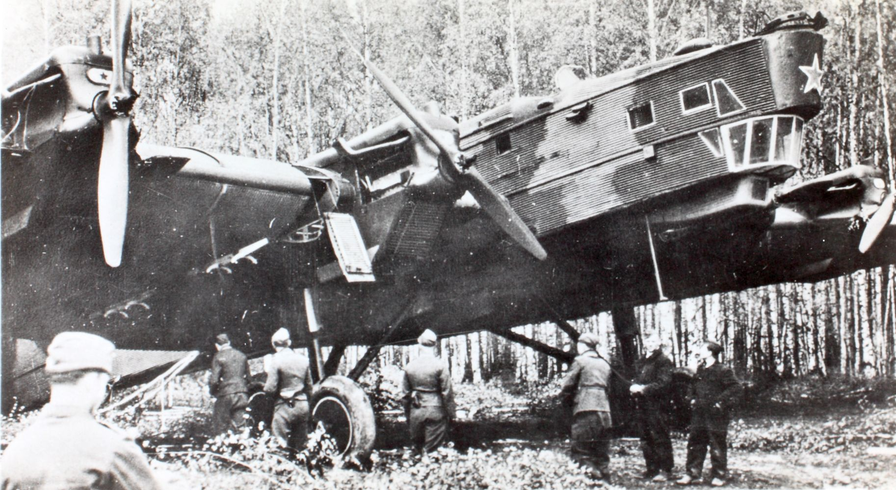 Catalog #: 15_002205 Title: Tupolev TB-3 Date: 1939 Collection: Charles M. Daniels Collection Photo Album Name: Soviet Aircraft Page #: 2 Tags: Soviet Aircraft, Charles Daniels, tupolev PUBLIC COMMONS.SOURCE INSTITUTION: San Diego Air and Space Museum Archive